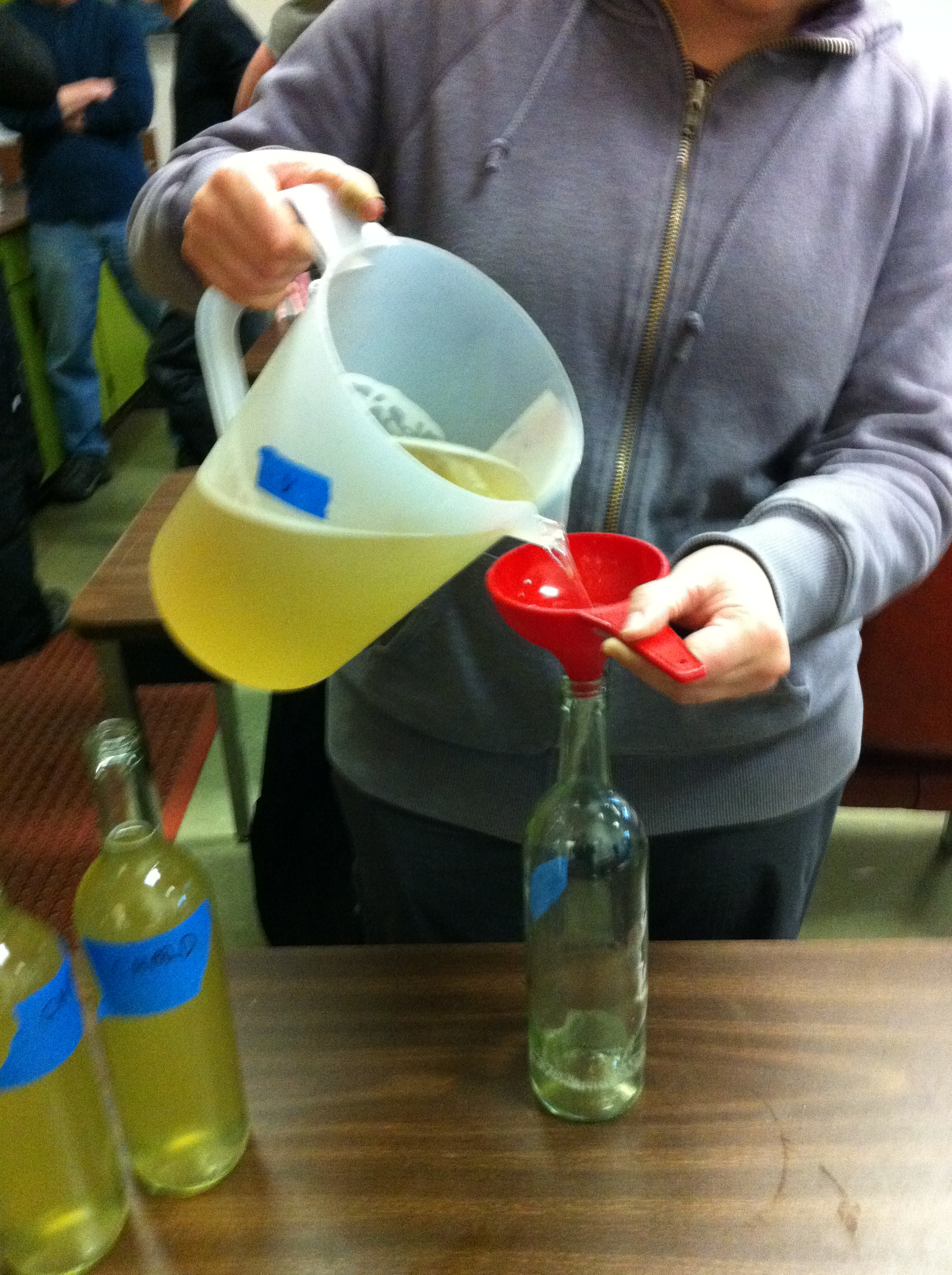 Chardonnay being poured into 750ml bottles to be used as test models in a bench trail for fining agents